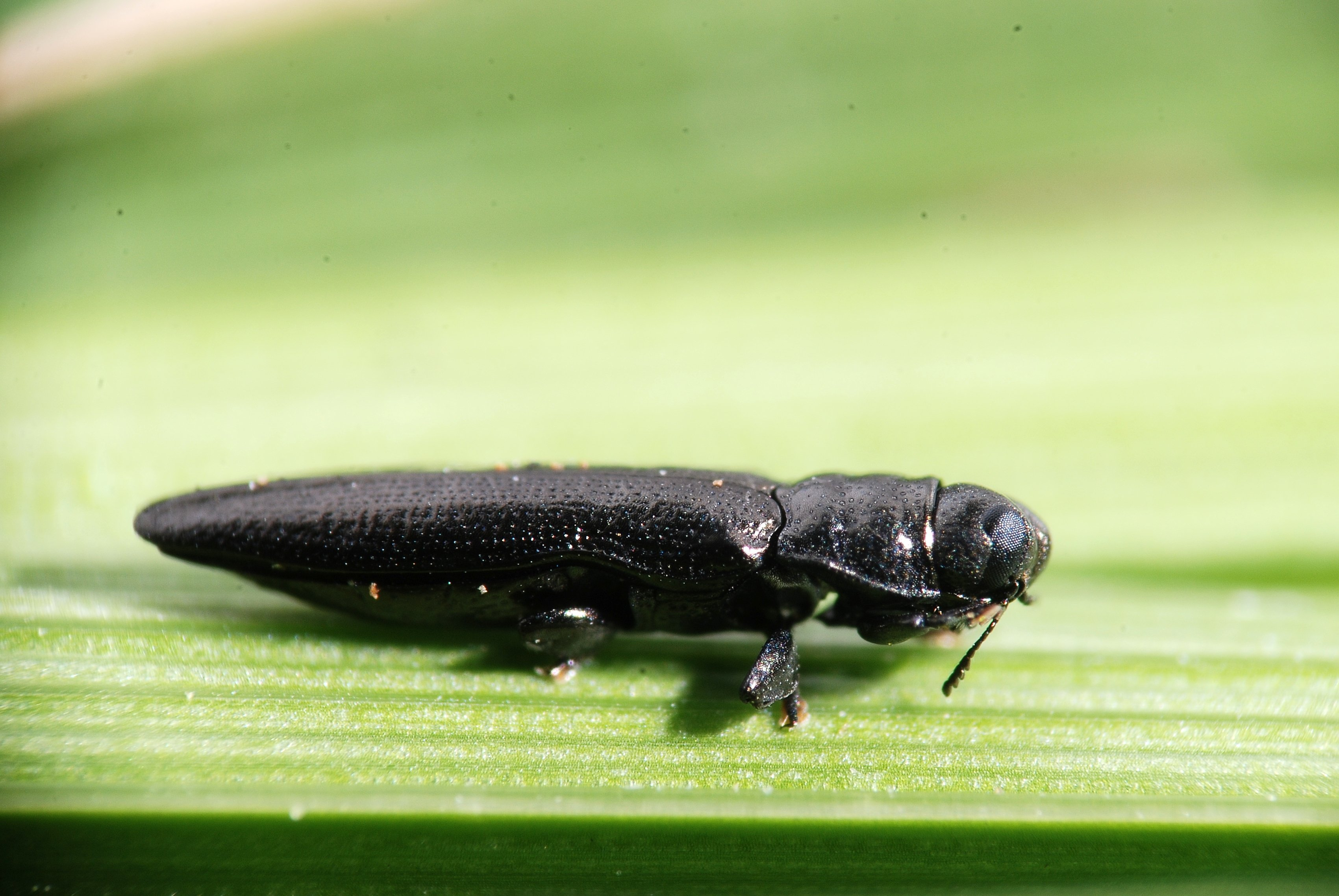 Aphanisticus cfr elongatus